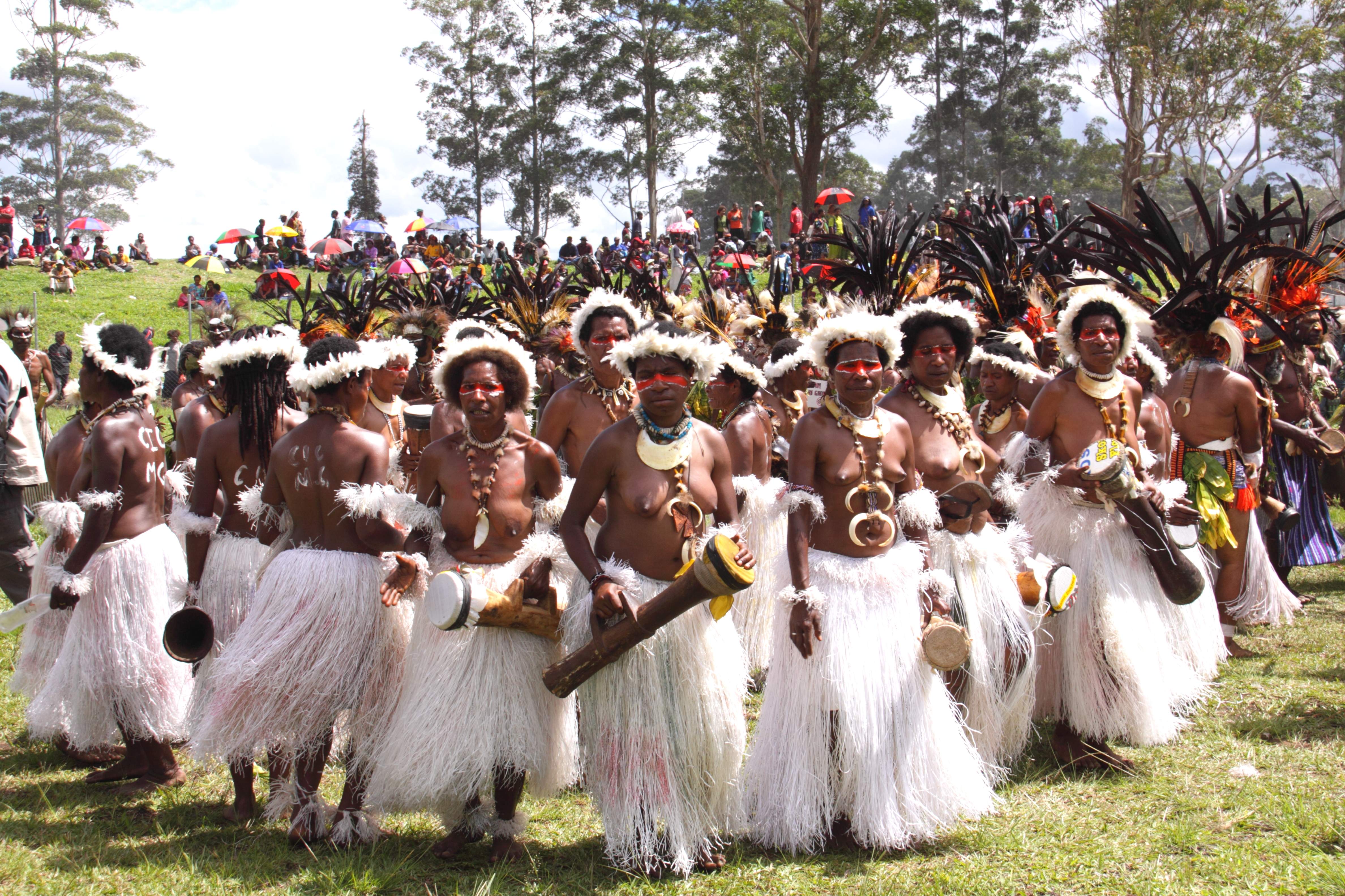 new guiney, CIC mama group